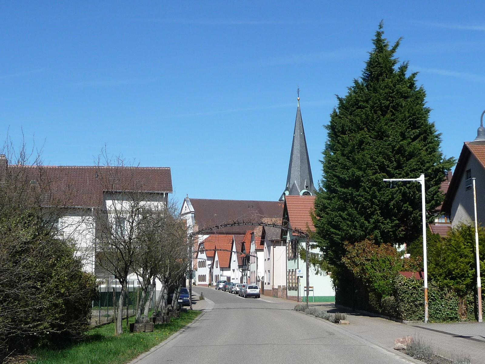 Venningen in Rhineland-Palatinate, Germany